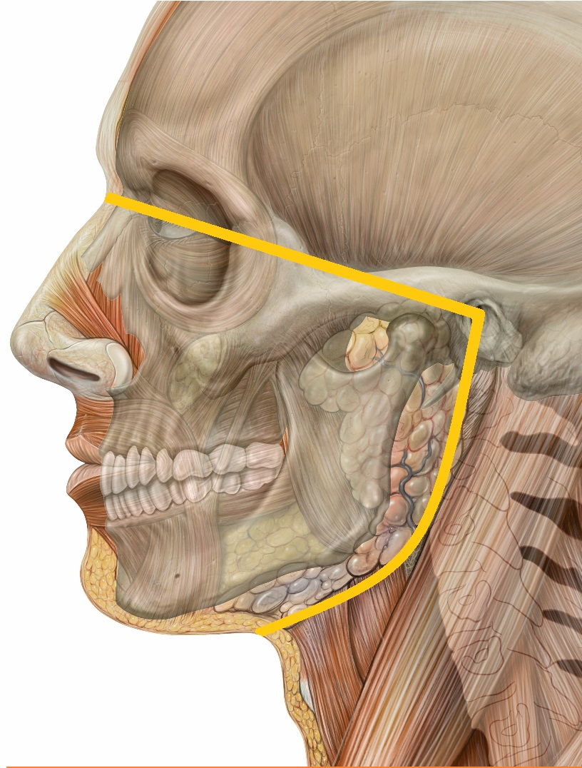 Diagram of lateral face showing extent of region within which pain is termed "orofacial". Boundaries defined after Zakrzewska JM, Hamlyn PJ. Facial pain. In: Crombie IK, Croft PR, Linton SJ, et al, eds. Epidemiology of Pain. Seattle, WA: IASP Press; 1999: 171-202.